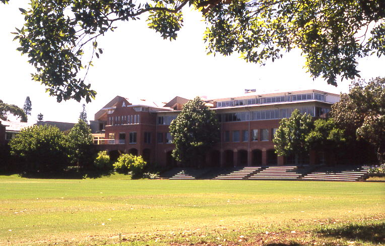 trinity grammar school, sydney, photo by 02:26, 30 December 2007 (UTC)